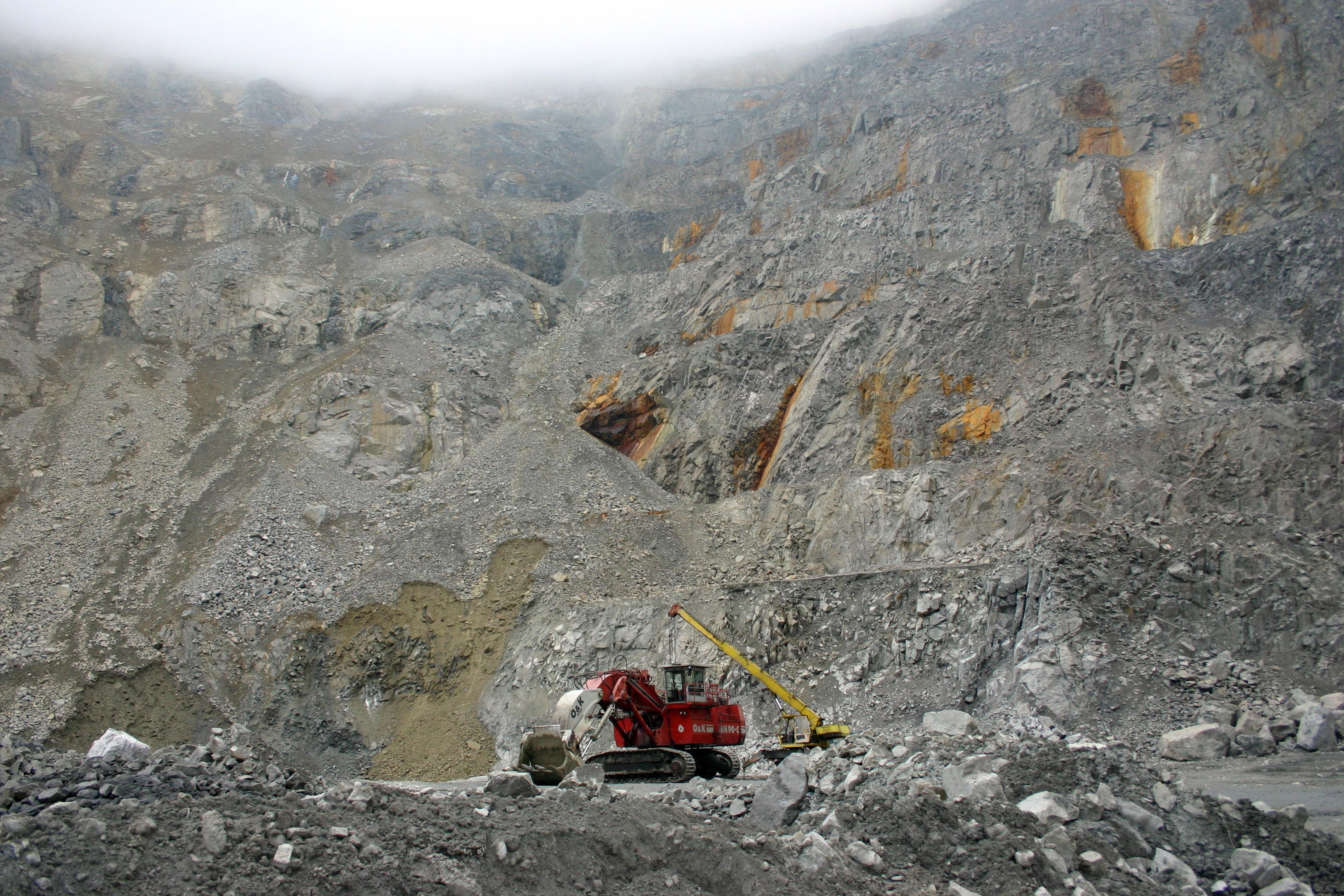 Elatsite gold and copper mine in Bulgaria.